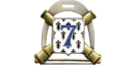 Regimental badge of the 7th Regiment of Artillery (France).